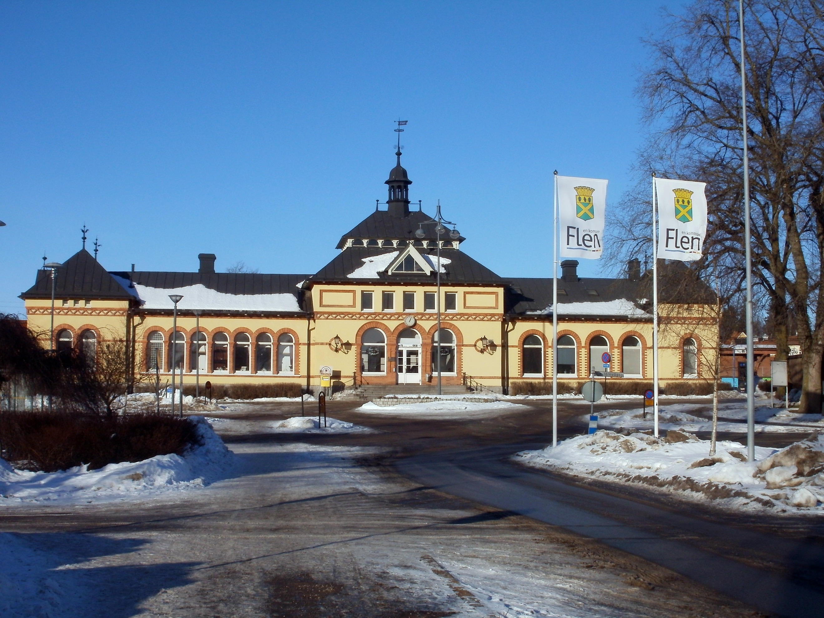 Flen's railwaystation 2011